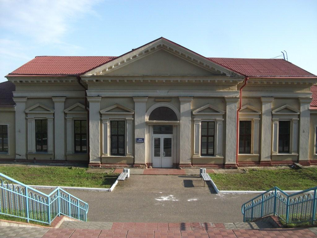 Pechory railway station building